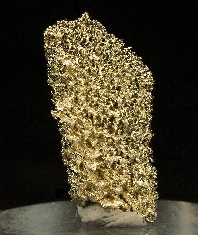 Gold Locality: Dixie Mine, Lamartine District, Clear Creek County, Colorado, USA (Locality at ) Size: 1.8 x 0.9 x 0.2 cm. A striking and beautiful, brilliant, whitish-yellow gold leaf or feather with distinctively different crystal form on each side. The "A" side is comprised of a mesmerizing, multitude of flattened crystals with triangular octahedral faces in a herringbone pattern. The "B" side is hackly microcrystals. This leaf is from the Dixie Mine of the Idaho Springs District, Colorado.